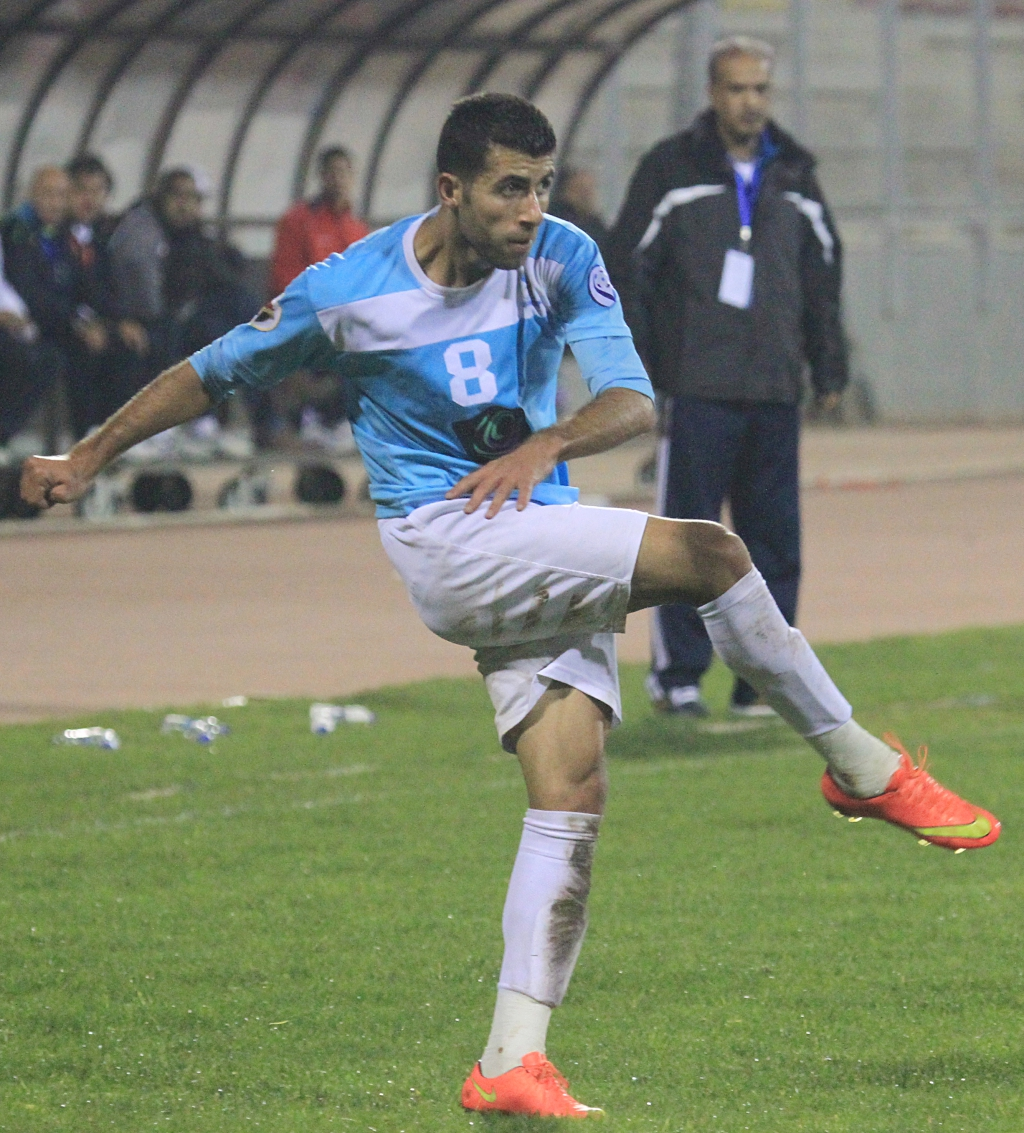 Baha' Abdel-Rahman in one of Al-Faisaly's Match